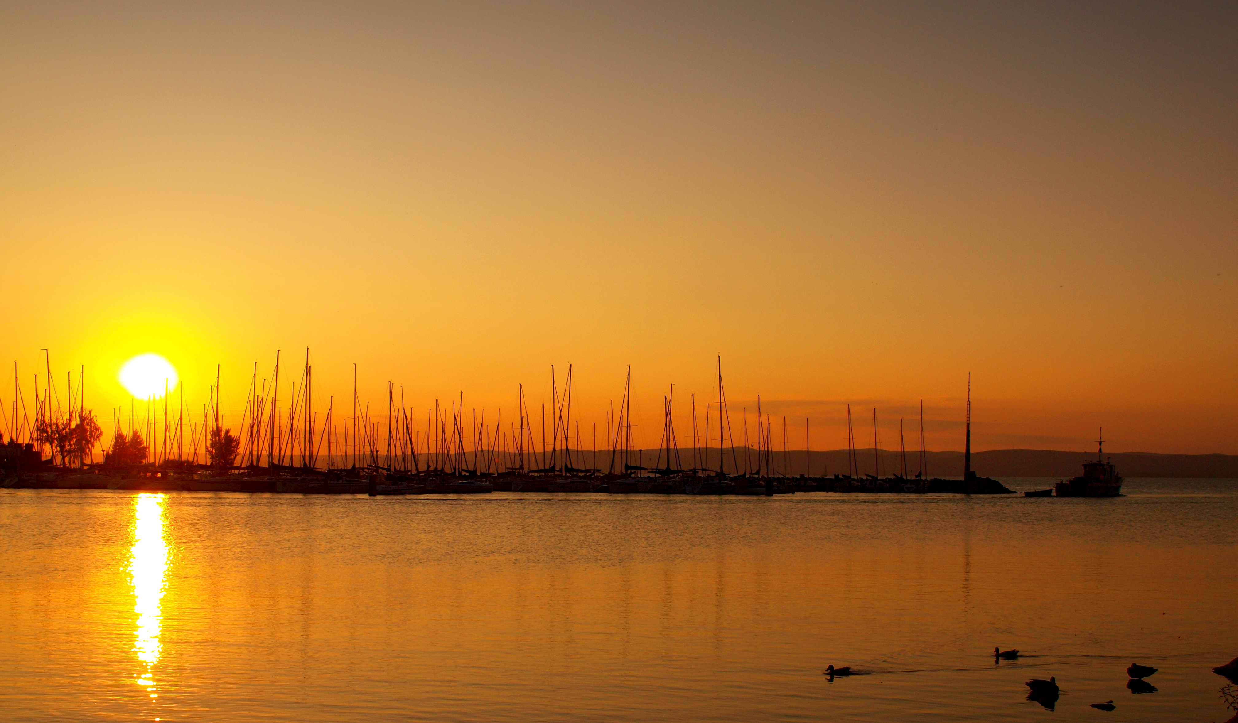 Siófok (Hungary) - Coucher sur la marina